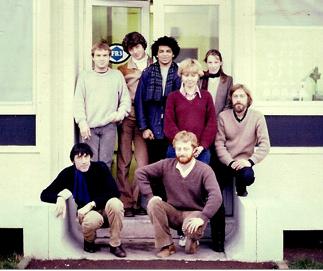 team of FR3 Lambersart